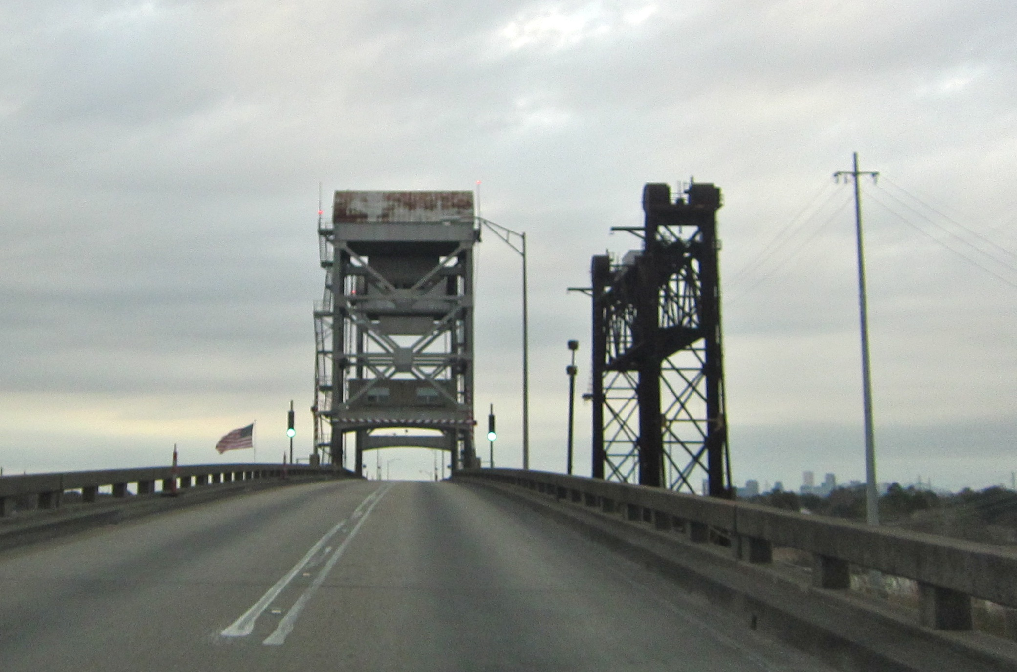 Approaching the Judge Perez Bridge and the adjacent railroad bridge, both vertical-lift bridges, as seen from a car traveling northwest on Louisiana Highway 23 (the Belle Chasse Highway) just west of Belle Chasse, Louisiana.